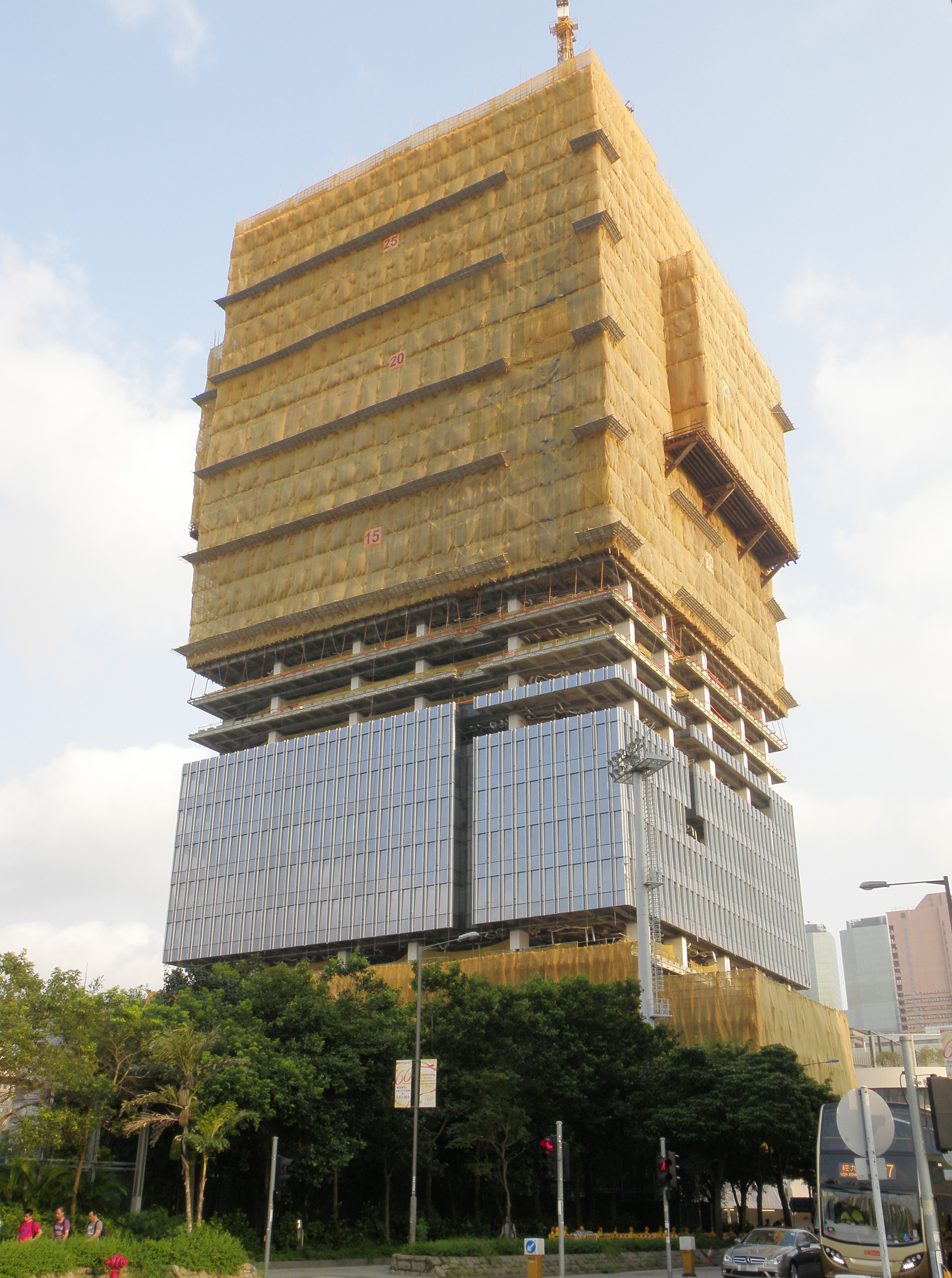 Goldin Financial Global Centre in Kowloon Bay, Hong Kong.